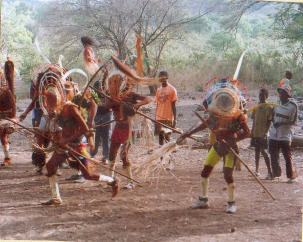 Lukuta masks before the ritual fight against young boys. Bassari traditions. North of Guinea, close to the border with Senegal.